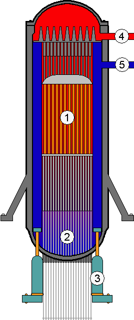 Core from the Advanced Boiling Water Reactor (ABWR) 1= Reactorcore 2= Controlrods 3= Internal Water Pump 4= Steampipeline to the Turbinegenerator 5= Coolingwater flow to the core